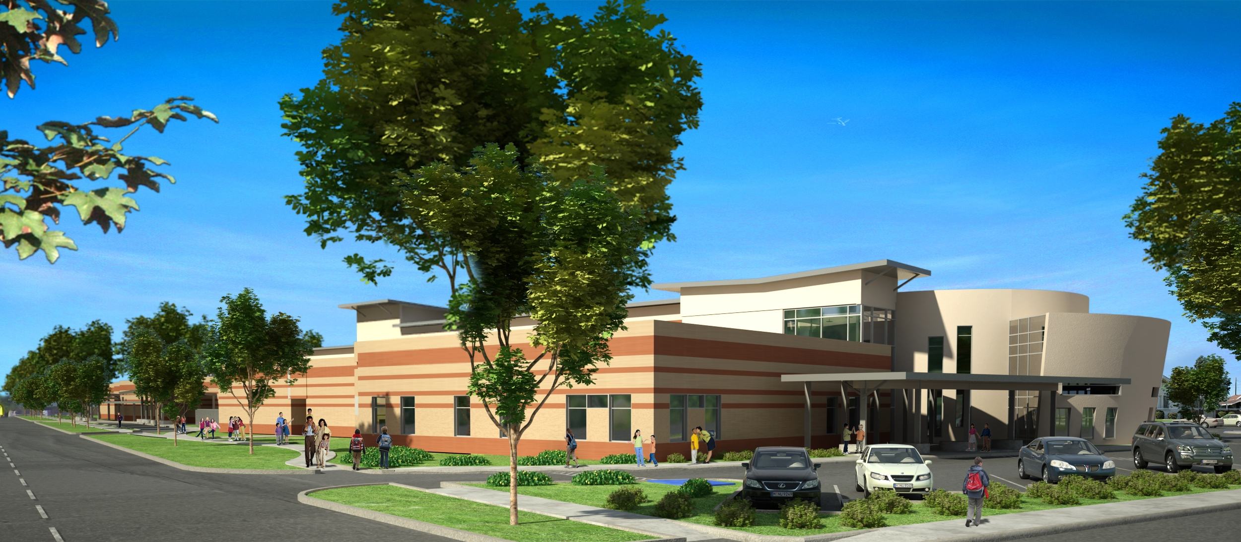 McKee @ Lorraine